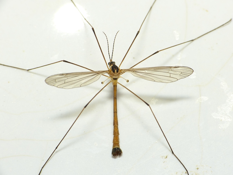 Cylindrotoma distinctissima male, location: The Netherlands - Rhenen - Blauwe Kamer - Gelderland